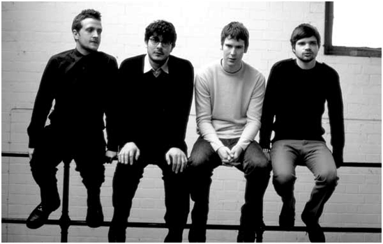 futureheads